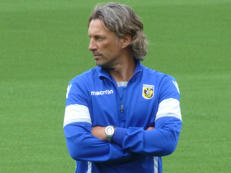 Rob Maas at the Papendal training grounds of Vitesse on 28 June 2015